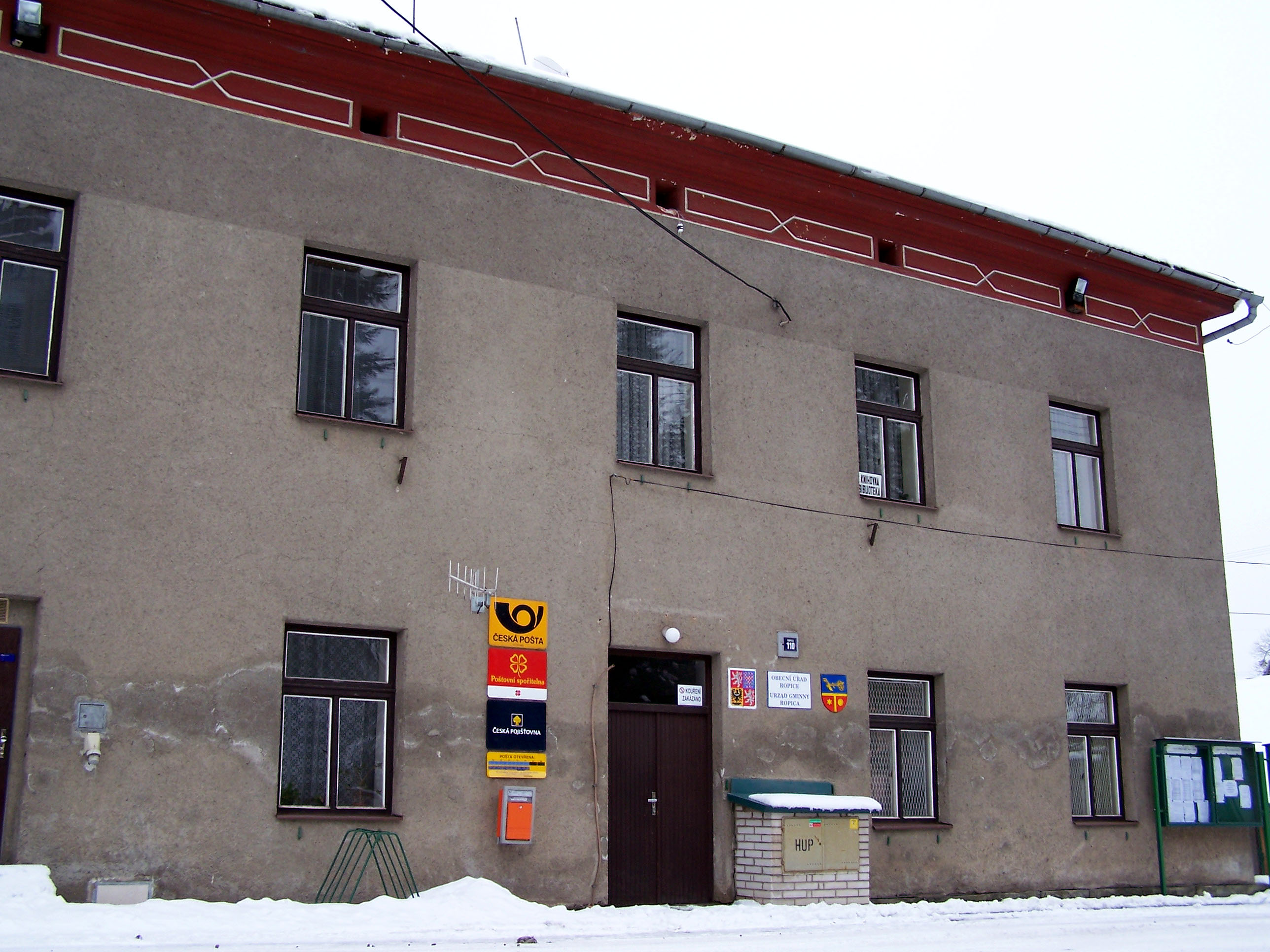 Municipal office and post office in Ropice (Ropica), Czech Republic